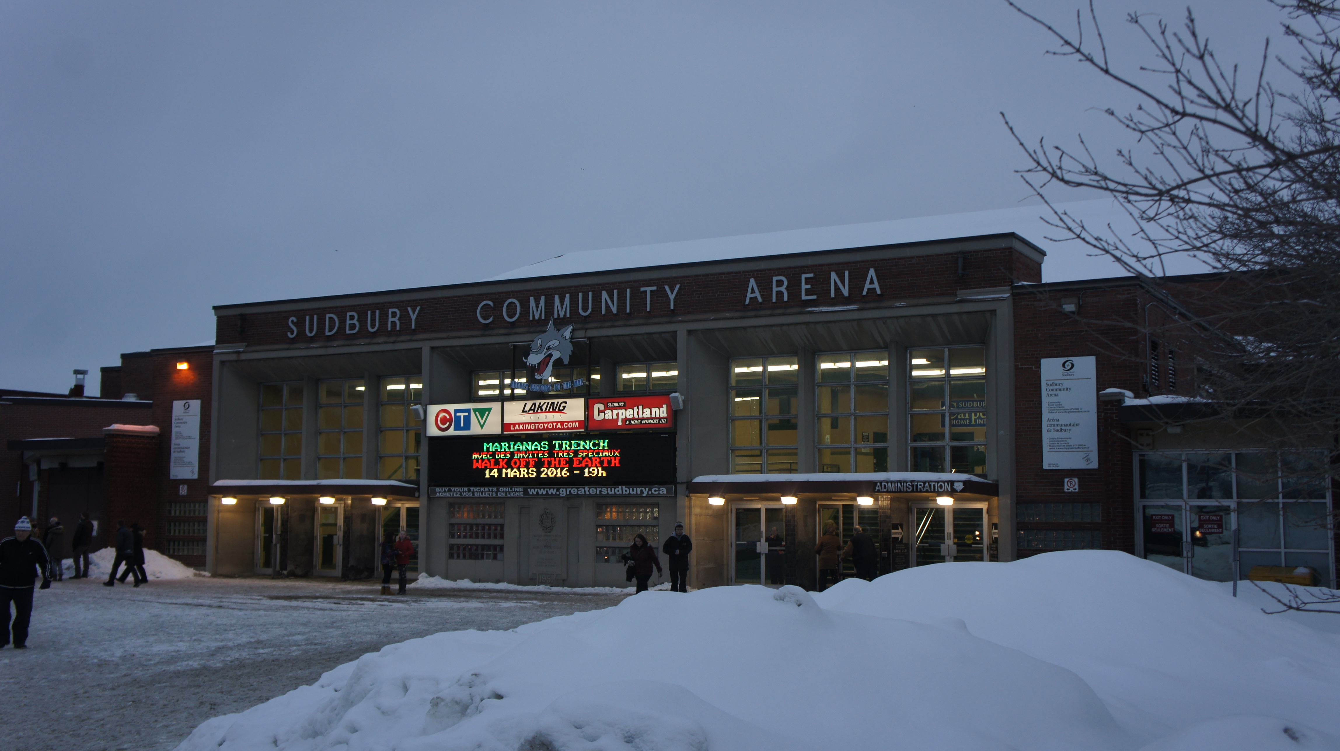 Sudbury Community Arena - Exterior